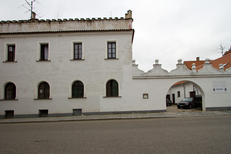 Bílý koníček hotel, Třeboň, Czech Republic